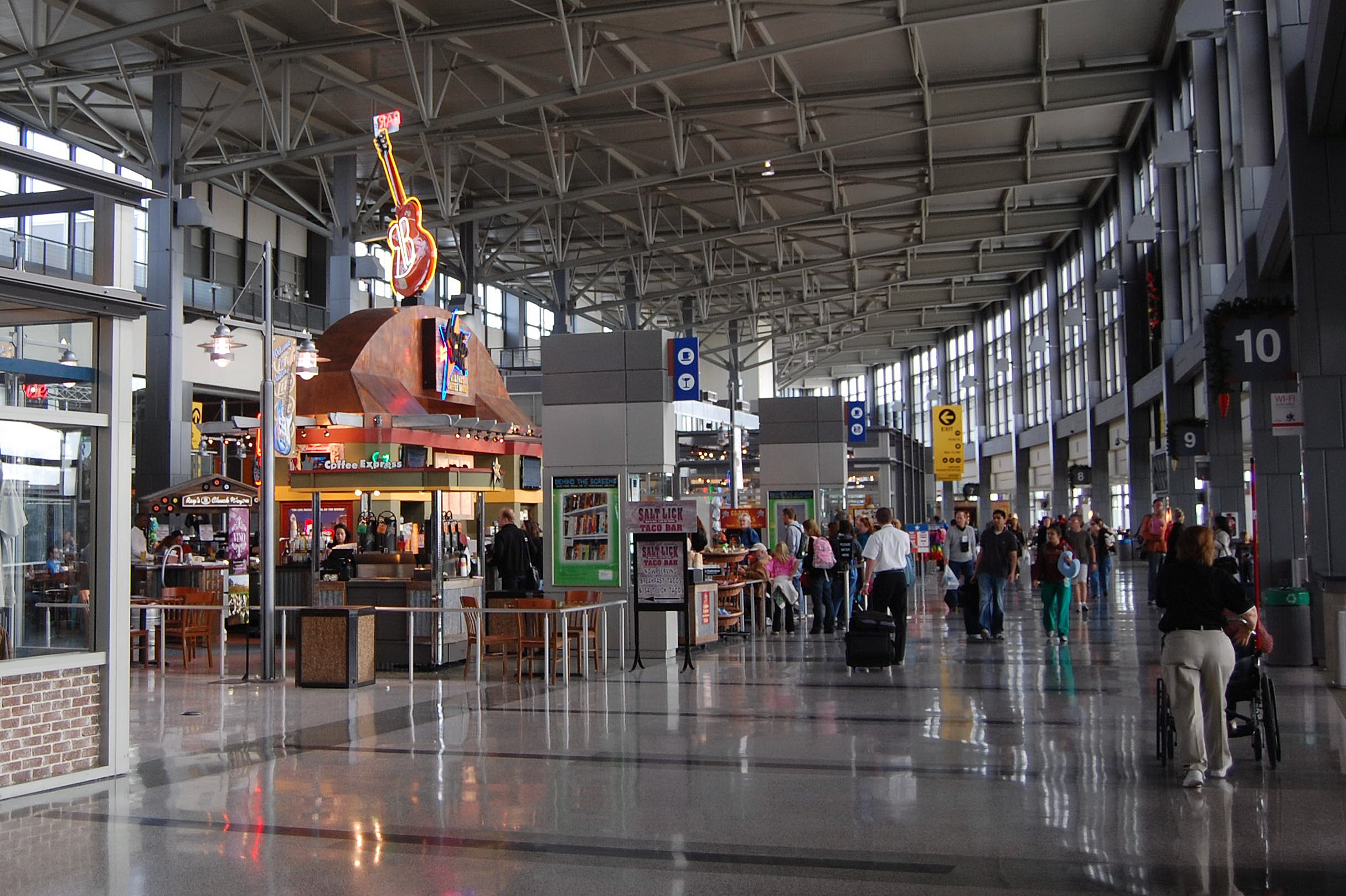 Interior - Austin Bergstrom International Airport terminal